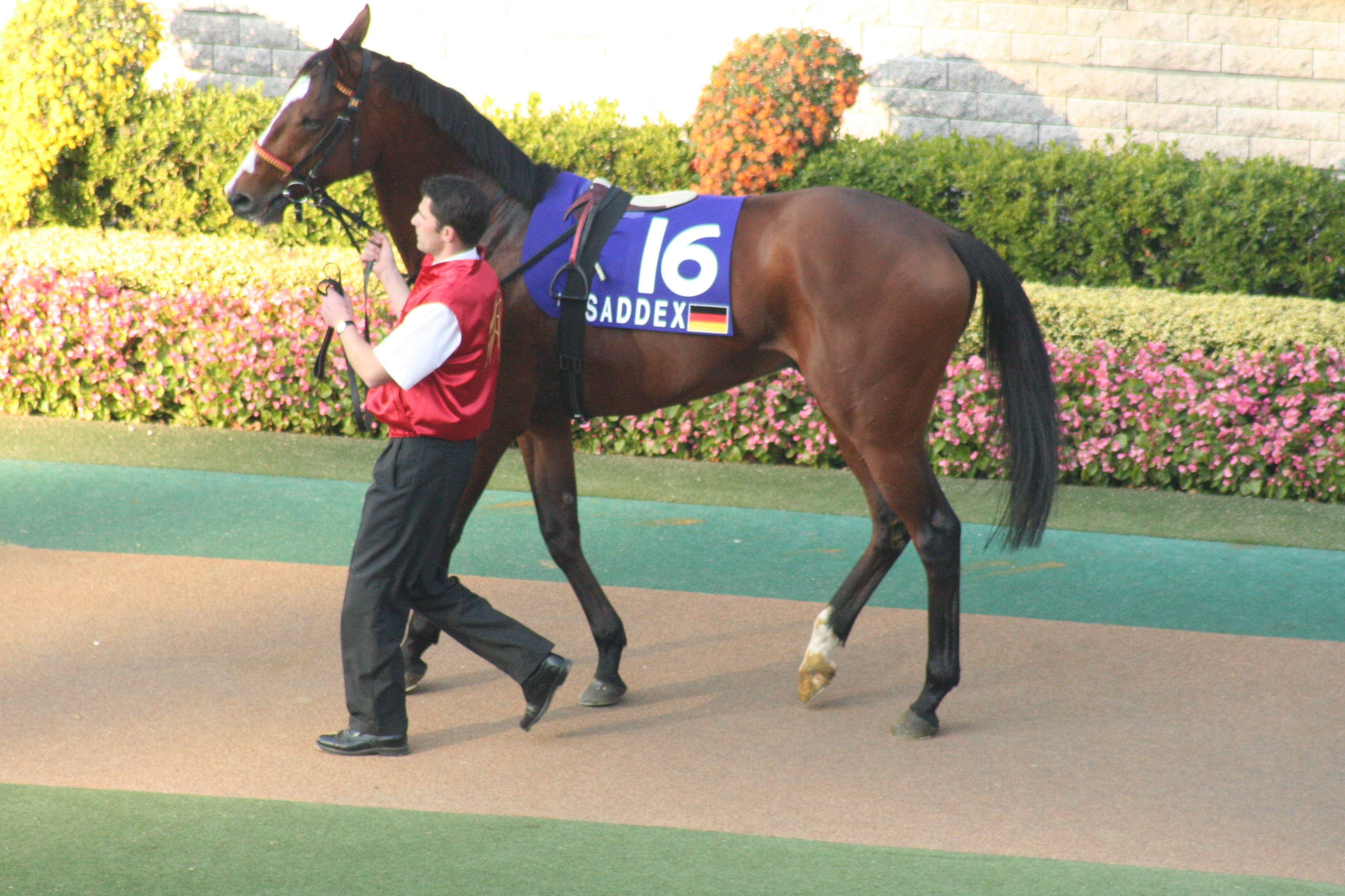 サデックス